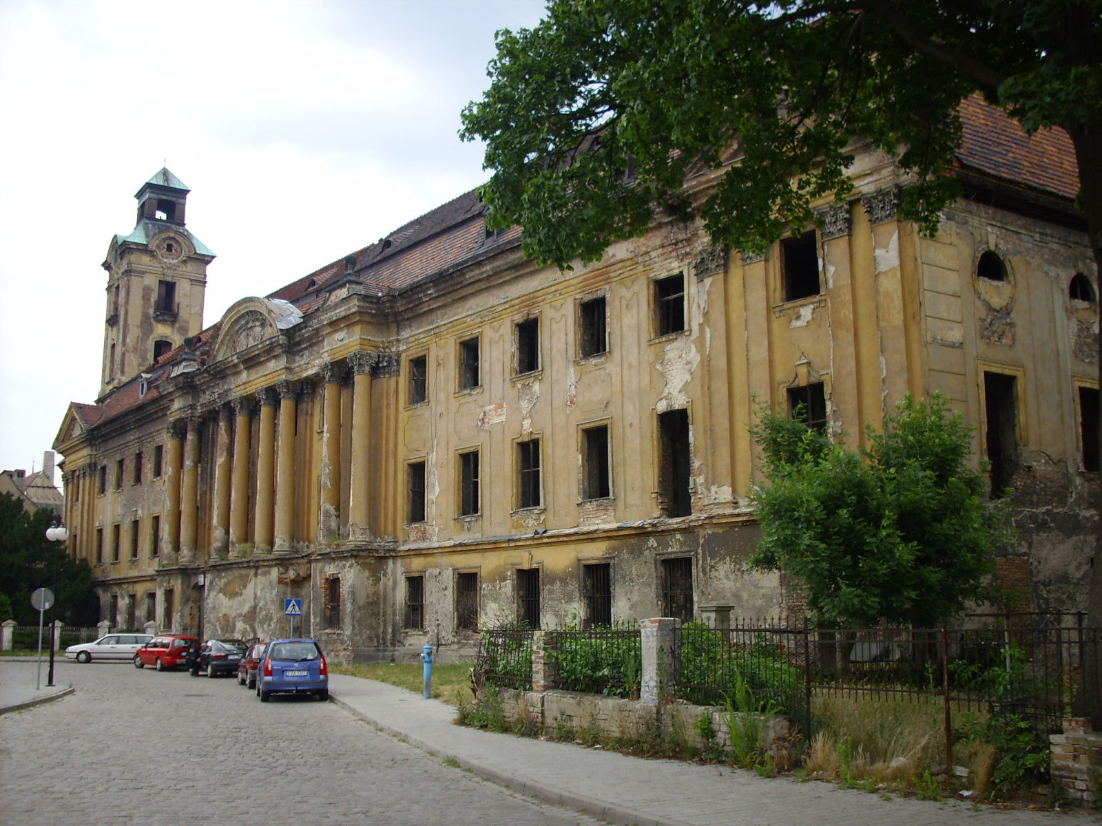 Palace in Zary and tower of castle.